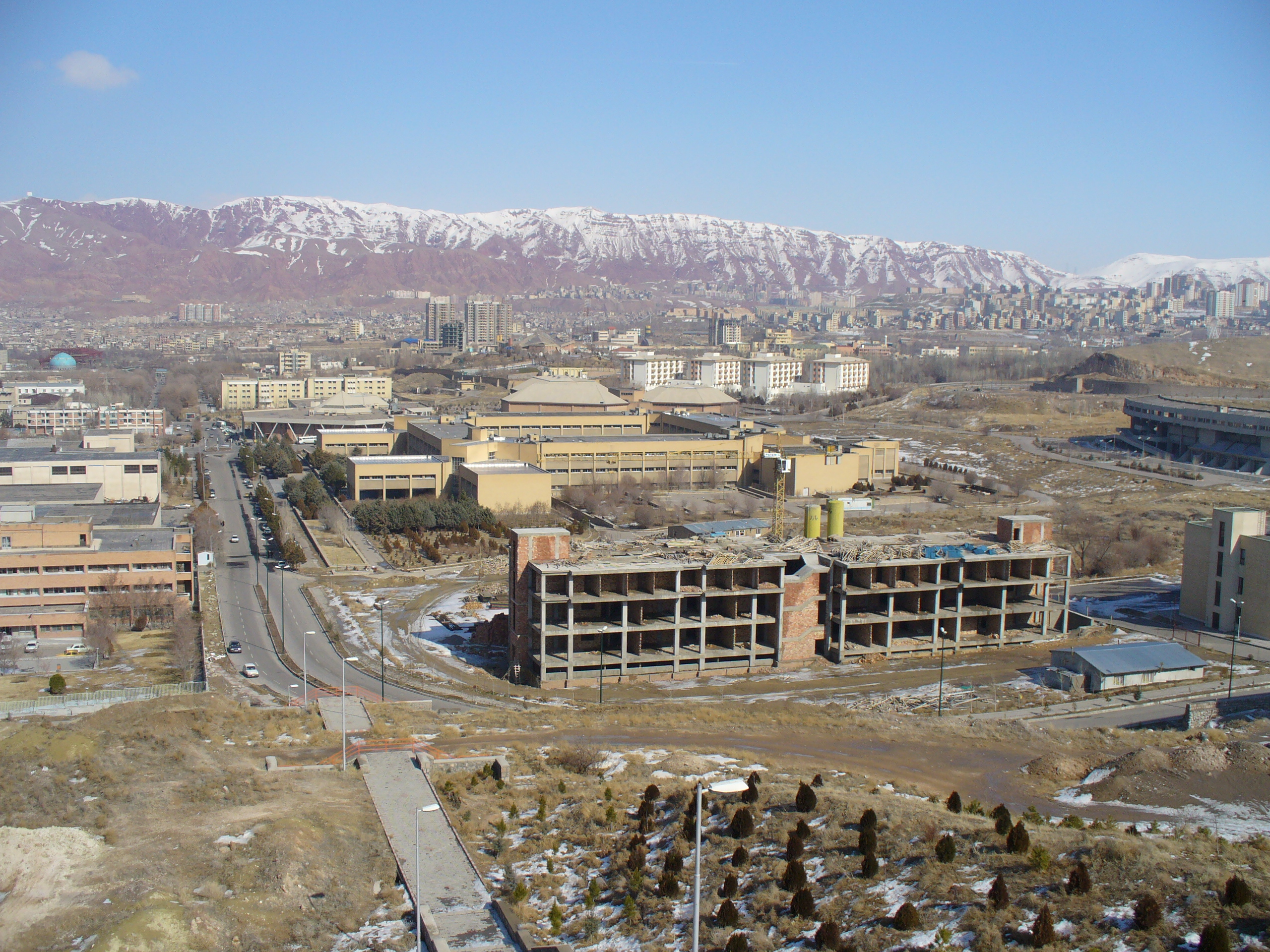 University of Tabriz. View from Research Institute for Applied Physics and Astronomy.